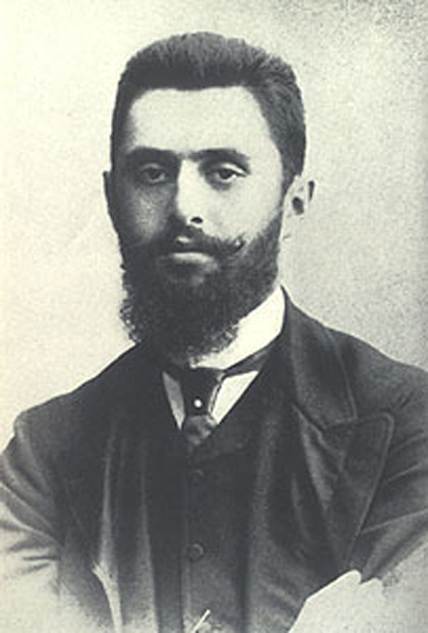 Theodor Herzl in his youth